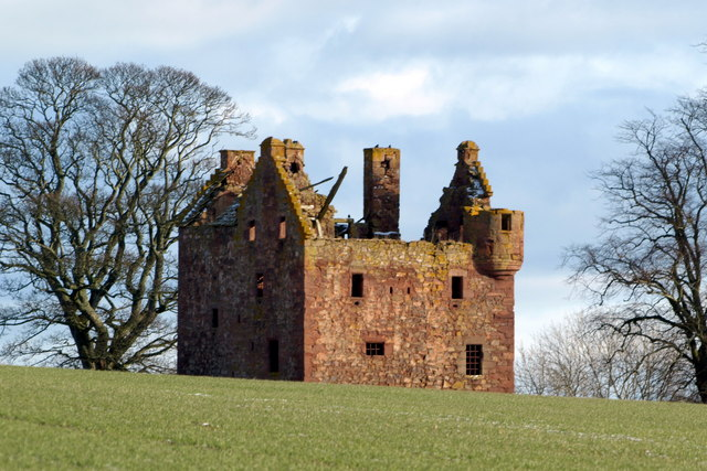 Braikie Castle This is a derelict 16th century tower house. It was built in 1581 and is on four storeys. Still relatively complete.